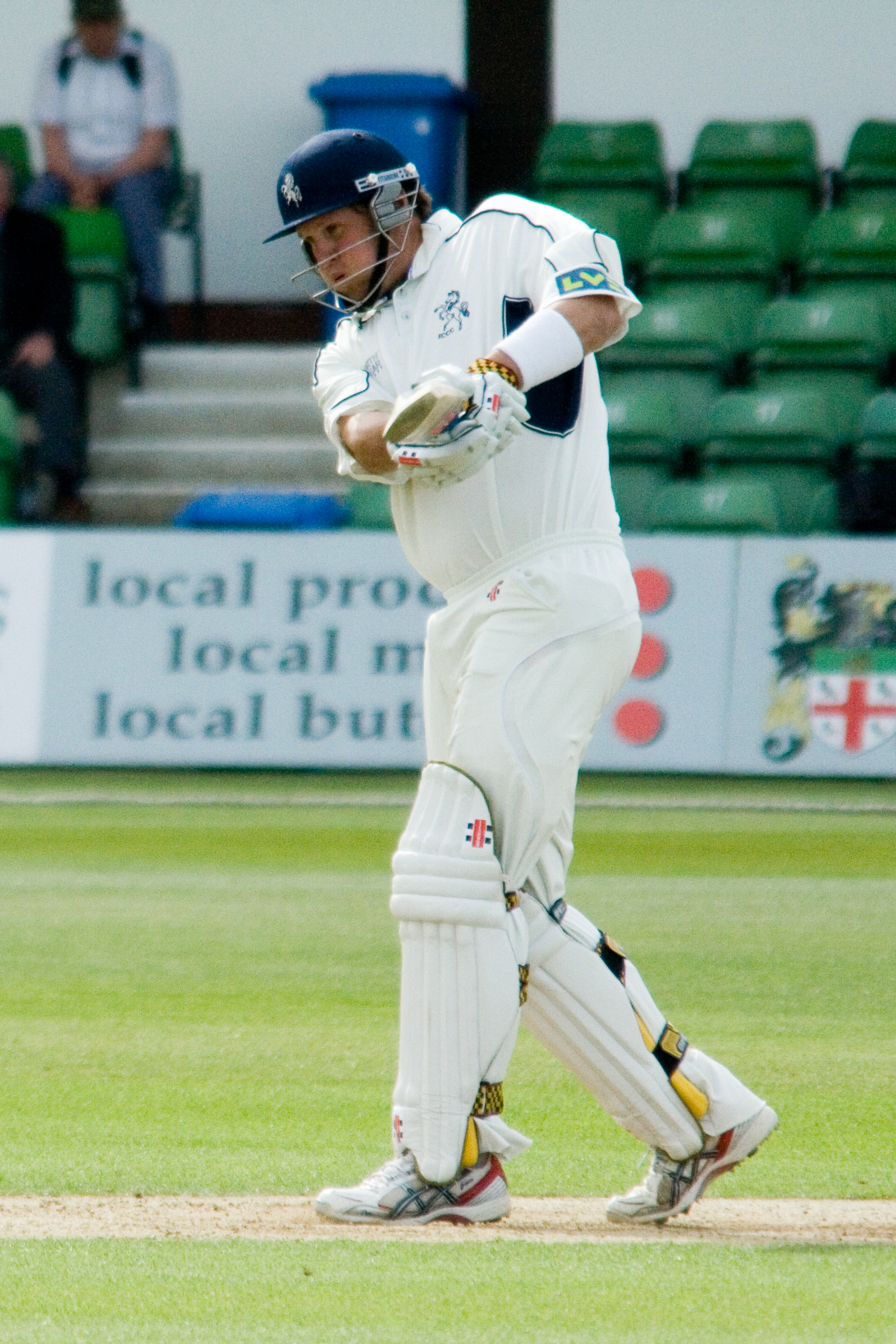 Rob Key pulls the ball during a 3 day friendly against New Zealand at the St. Lawrence ground